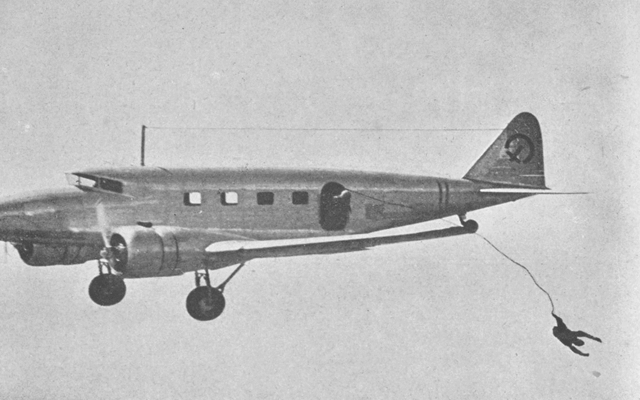 Jump of a japanese paratrooper in WWII with the parachute modell type 1 special.